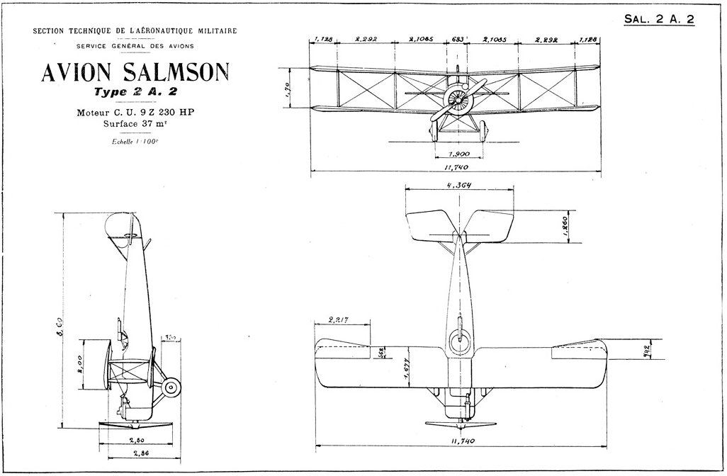 Salmson 2 A.2 dwg